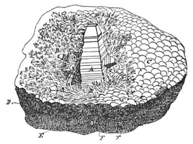 Drawing, at natural scale, of a mineral specimen from the Copper Queen Mine in Arizona. A: Monolithic crystal of paramelaconite B: Footeite, synonymous with connellite C: Brownish-black mamillae of limonite D: C in section E: Granular mixture of limonite and cuprite F: Native copper